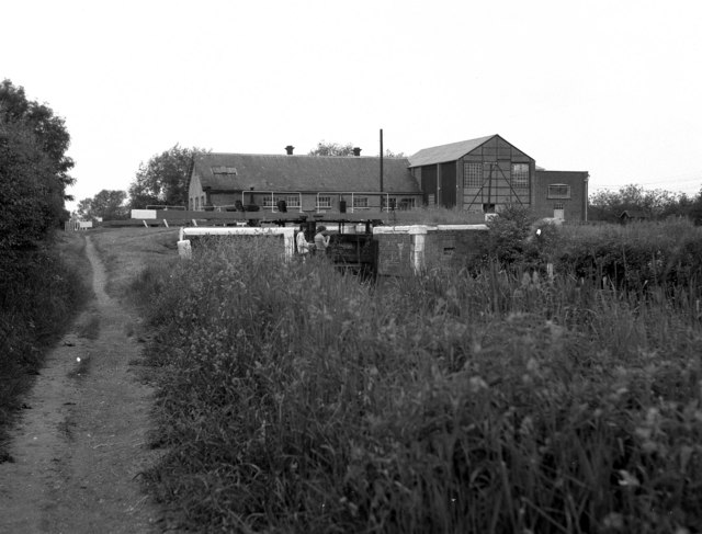 Southcote Lock No 104, Kennet and Avon Canal Despite its very overgrown appearance, Southcote Lock was actually navigable at the time of this 1975 photograph, although it did not see a great deal of use, as a few miles further west, at Tyle Mill, was then the limit of navigation. Now, however, through navigation to Bath is possible and there are plenty of boats.